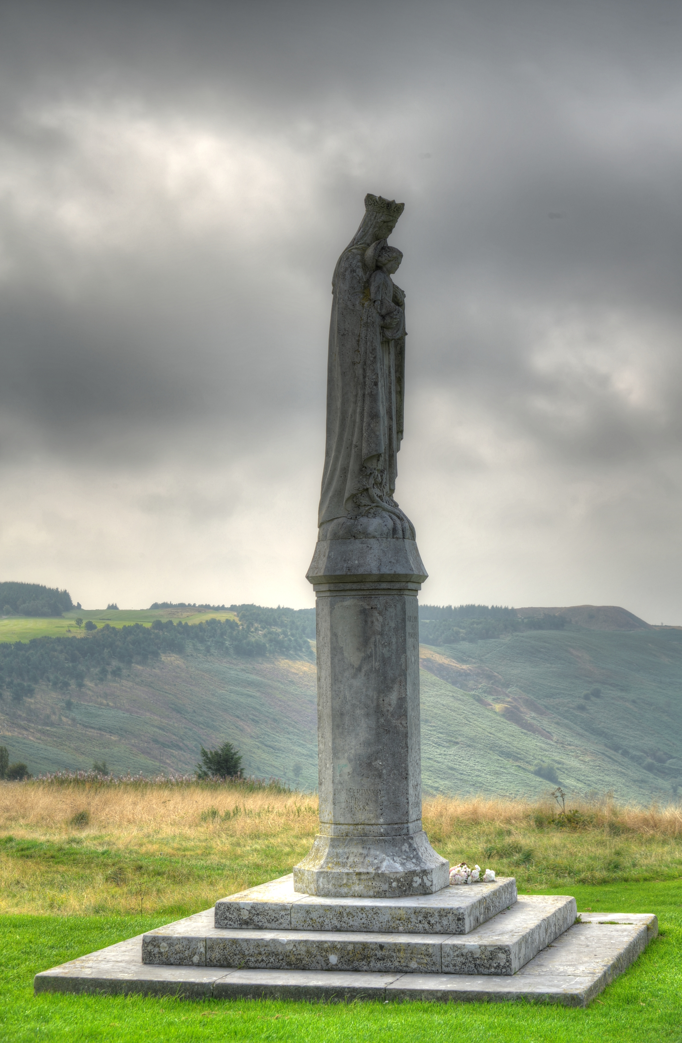 A Catholic statue at Penrhys, Wales, replacing a Marian shrine destroyed during the Protestant Reformation.